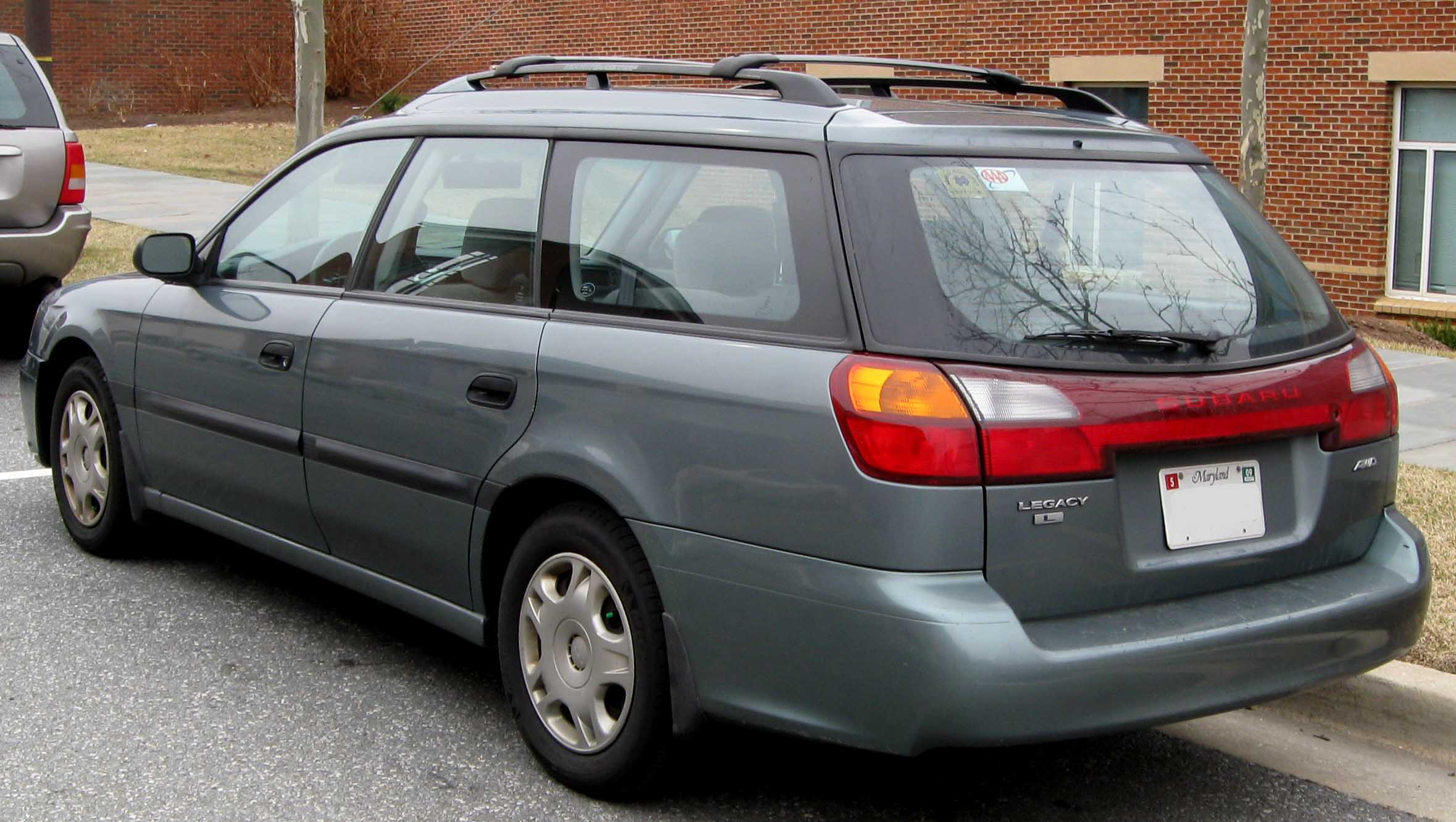 2000-2004 Subaru Legacy photographed in College Park, Maryland, USA.